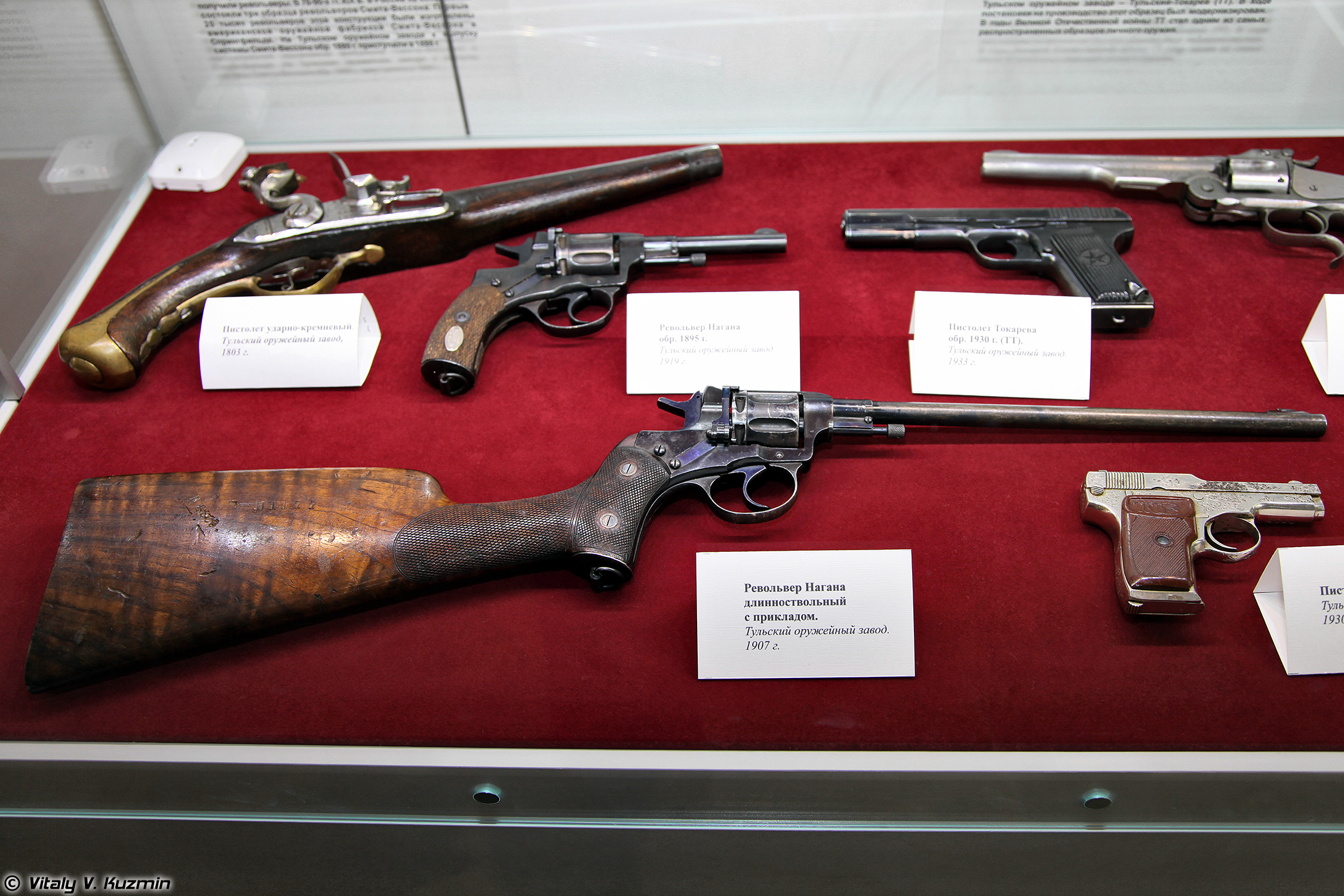 Long barrel Nagan revolver with buttstock